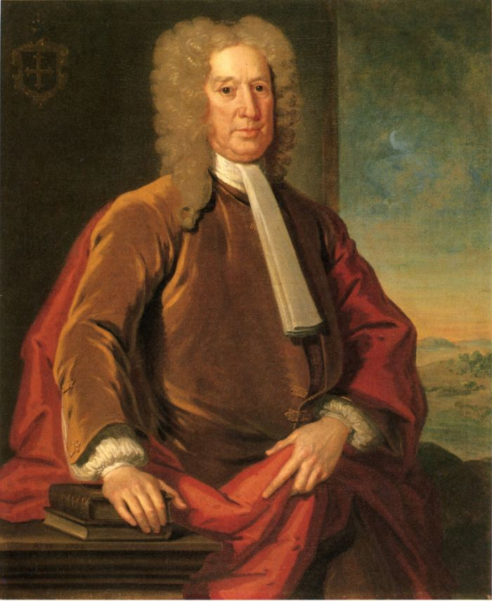 Portrait of John Nelson (1654-1732) New England trader and statesman.